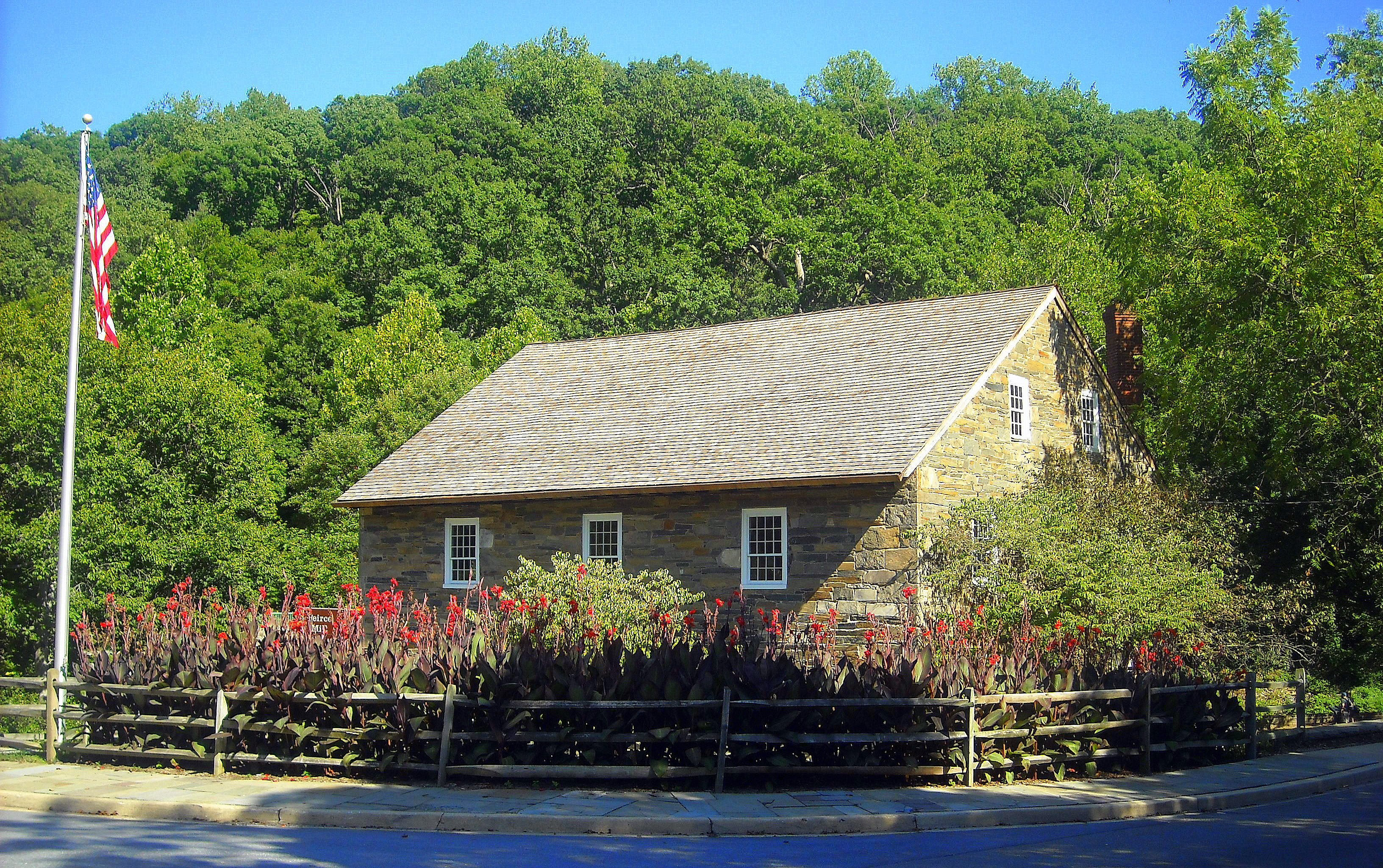 Pierce Mill in Pierce Park, Washington, D.C. The building is listed on the National Register of Historic Places.